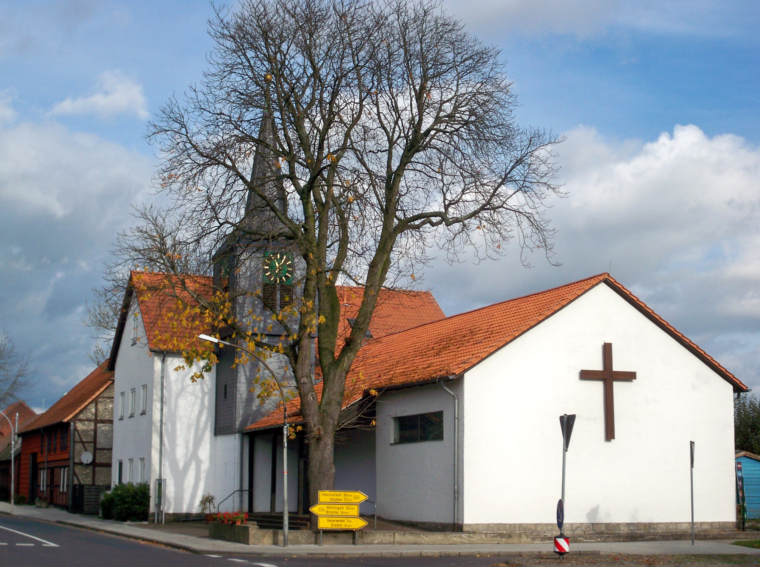 Rühen, Lower Saxony, St. Paulus church (formerly a school building)